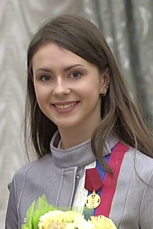 Vladimir Putin presented state awards to the Russian athletes who won medals at the 2018 Olympic Games in Pyeongchang